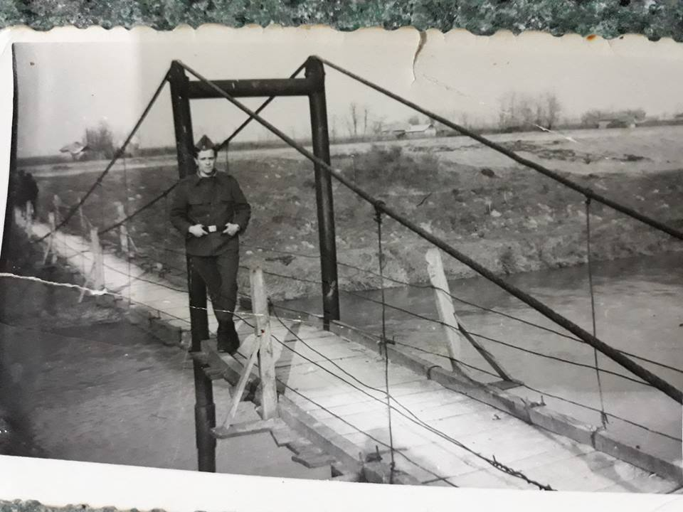 The simbol of the village .